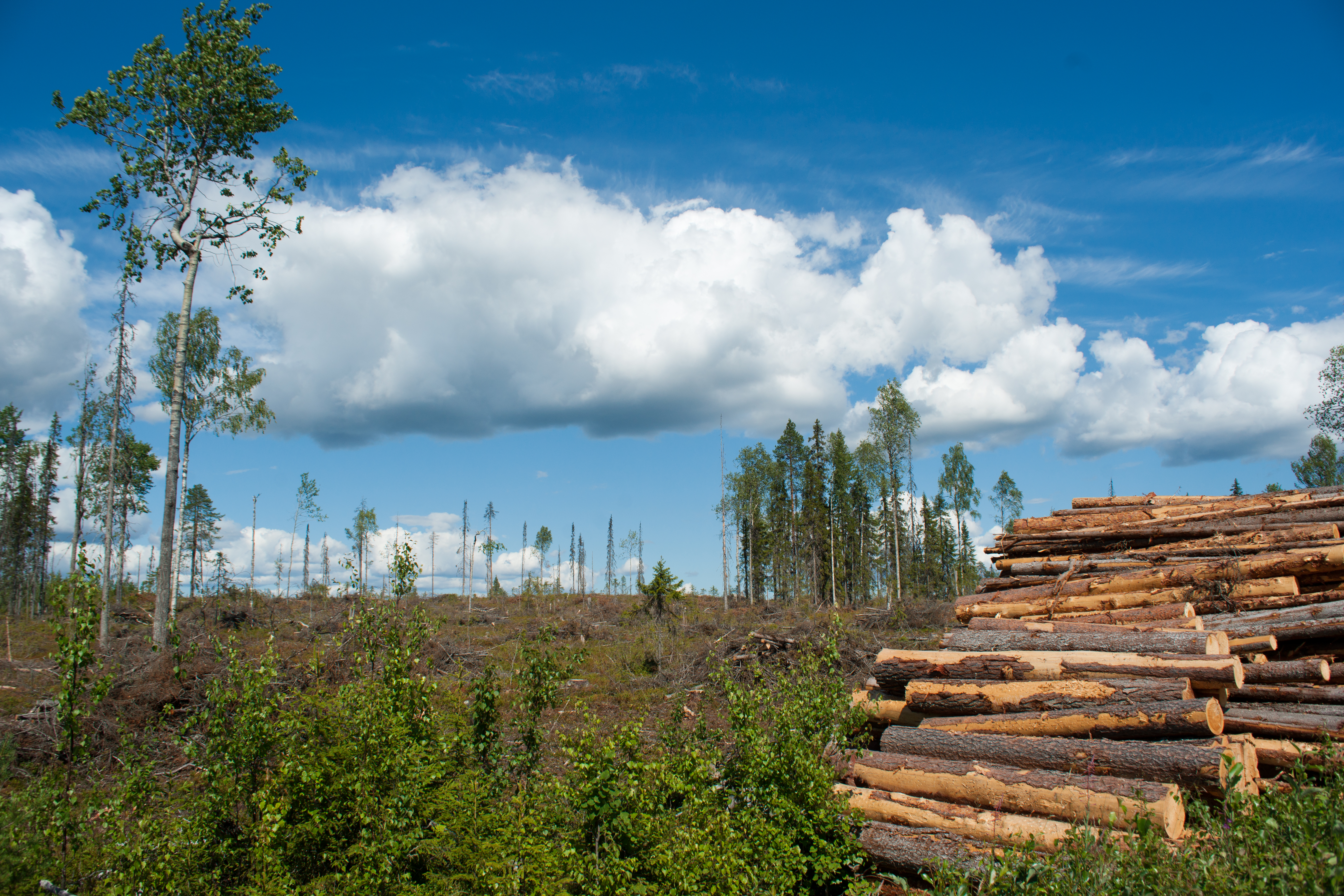 Wood exploitation in Finland.